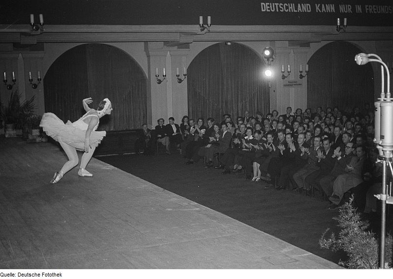 Original image description from the Deutsche Fotothek Auftritt der Balletsolistin Maria Plissezkaja